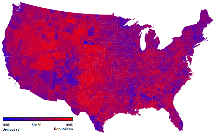 Presidential popular votes by county. Created by Michael Gastner, Cosma Shalizi, and Mark Nudeman of the University of Michigan.